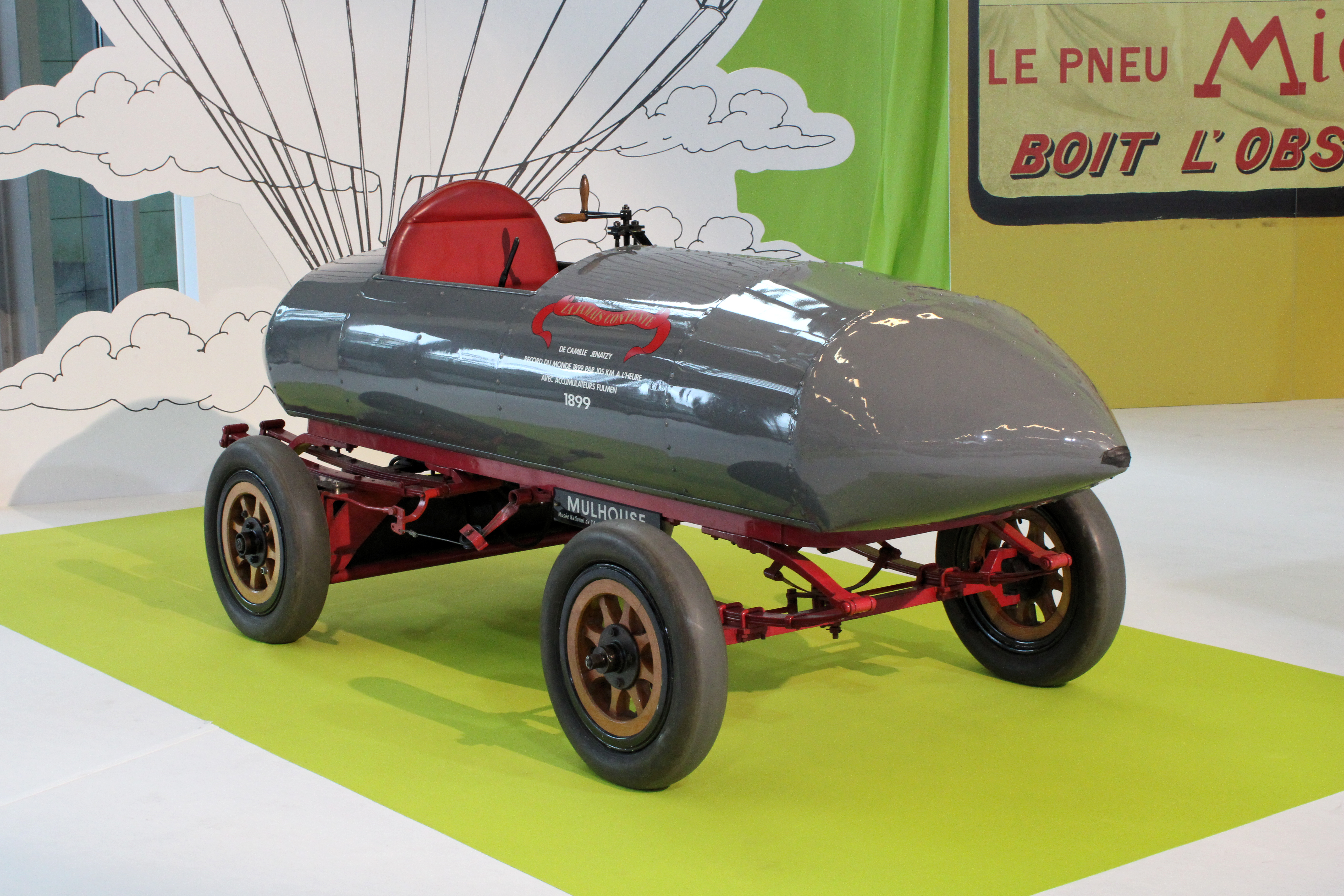 Jamais Contente (1899) Replique at Paris Motor Show 2018